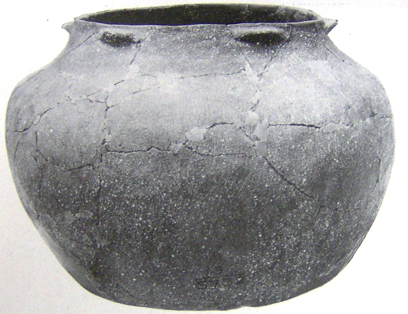 Pottery vessel uncovered by archaeologist M.R. Harrington during his 1919 excavations on Bussell Island, at the mouth of the Little Tennessee River in Loudon County, Tennessee, USA. The diameter of the pot's mouth is 11.1 inches (281.94mm).